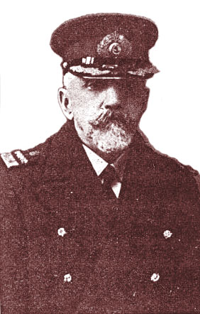 Генерал-хорунжий Владимир Савченко-Бельский в униформе Державного Флота, 1929 год.